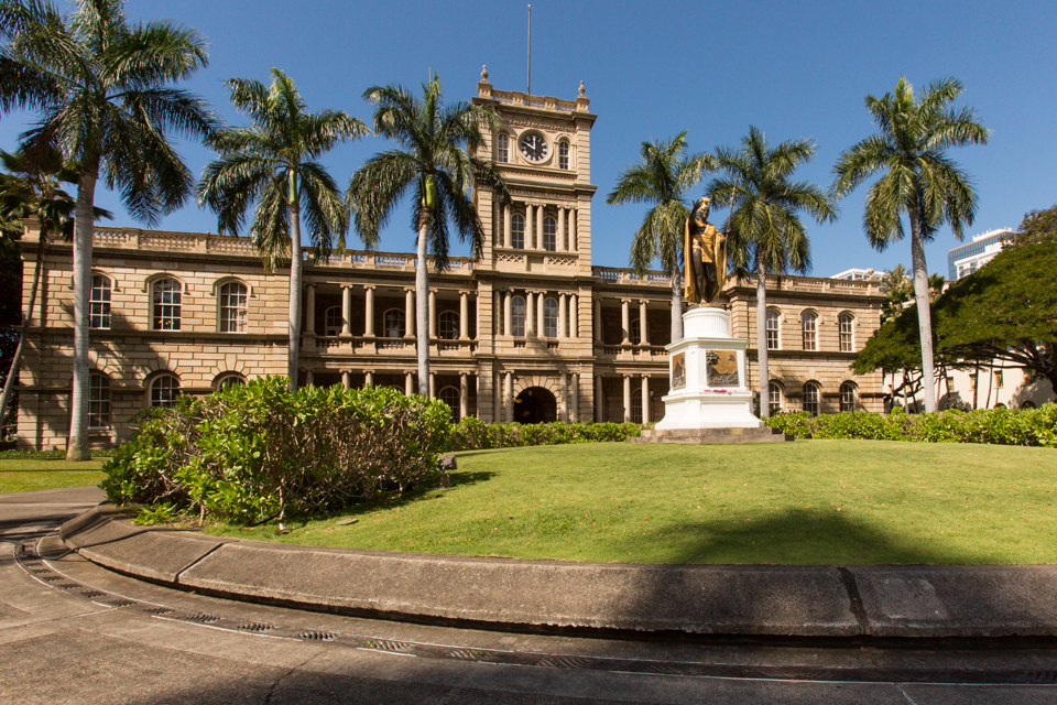 The iconic Territorial Courthouse captured within the the Capitol District of Honolulu